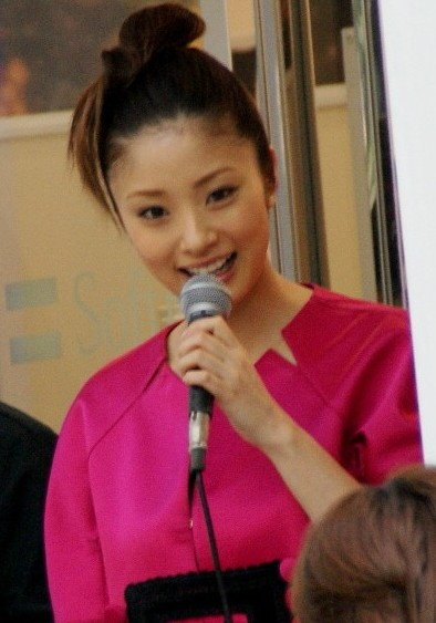 Ueto Aya at the iPhone 3GS launch party at the Softbank store in Omotesando, Tokyo.